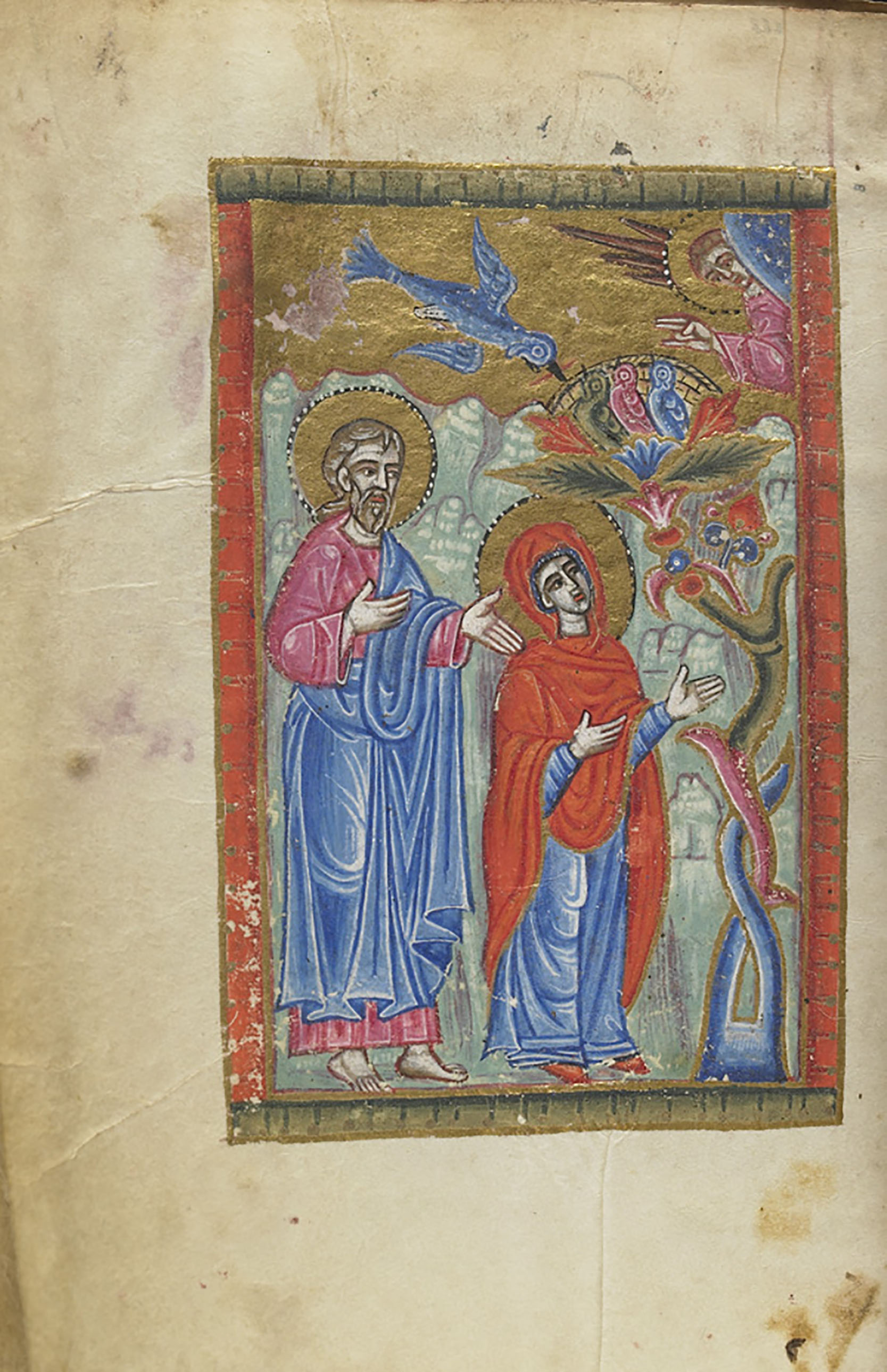 The Orthodox Hymnal (Sharaknotz) 1651-1652 Hayrapet Ink and color on paper H: 8.2 W: 5.3 cm Armenia Purchase F1937.19